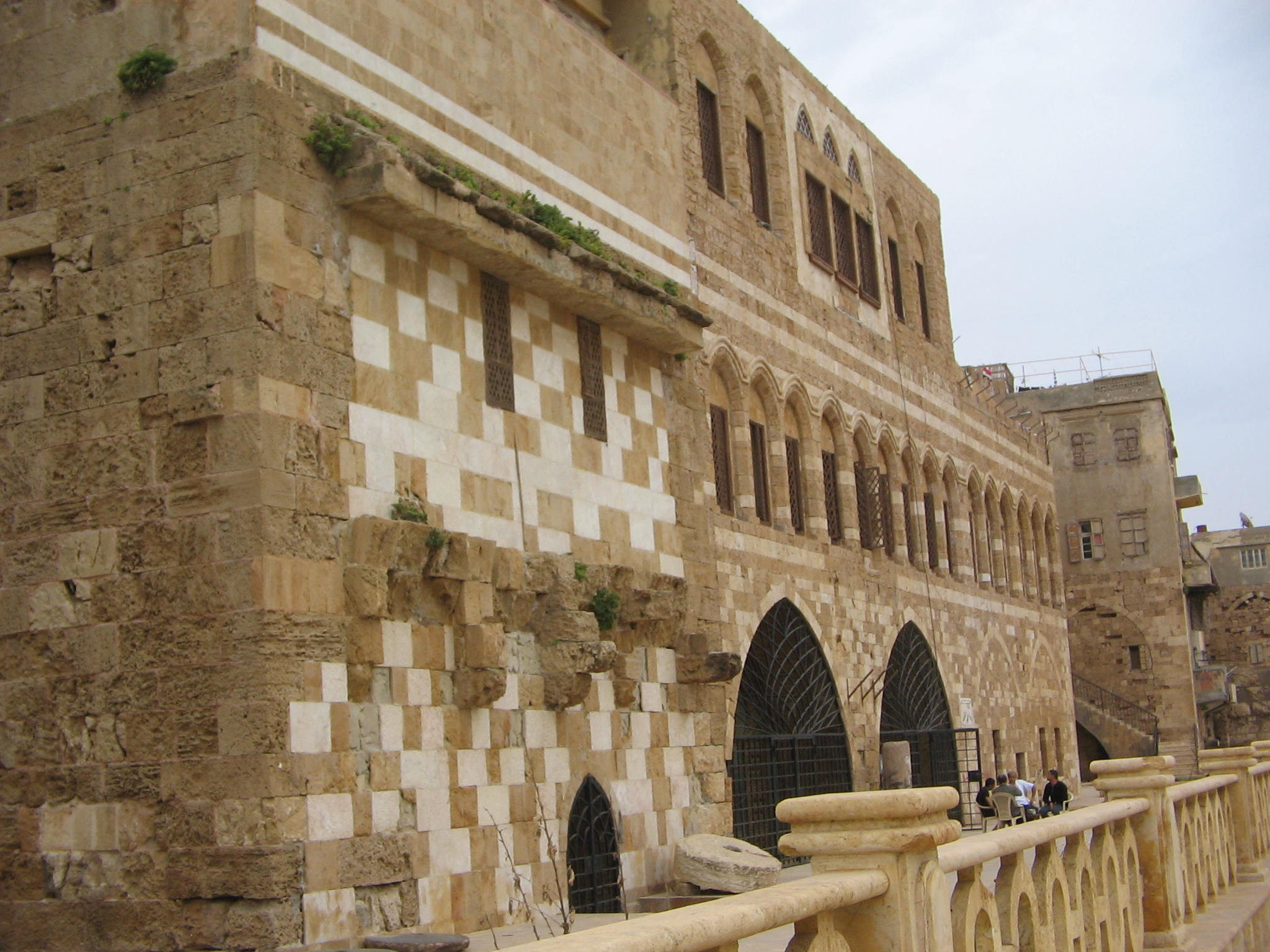 Ruins of the medieval centre, Templar fortress, Tartus in 2006